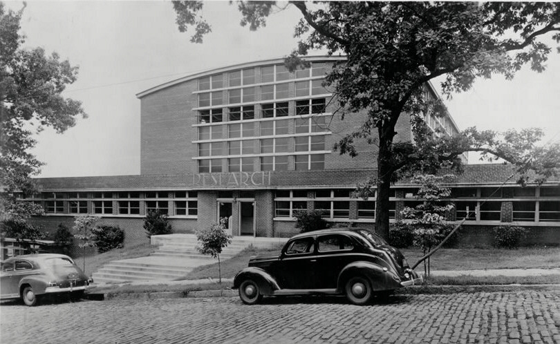 The Hinman Research Building, also known as the Engineering Research Building, the primary facility of the Georgia Tech Research Institute from the 1930s until more buildings were acquired decades later.